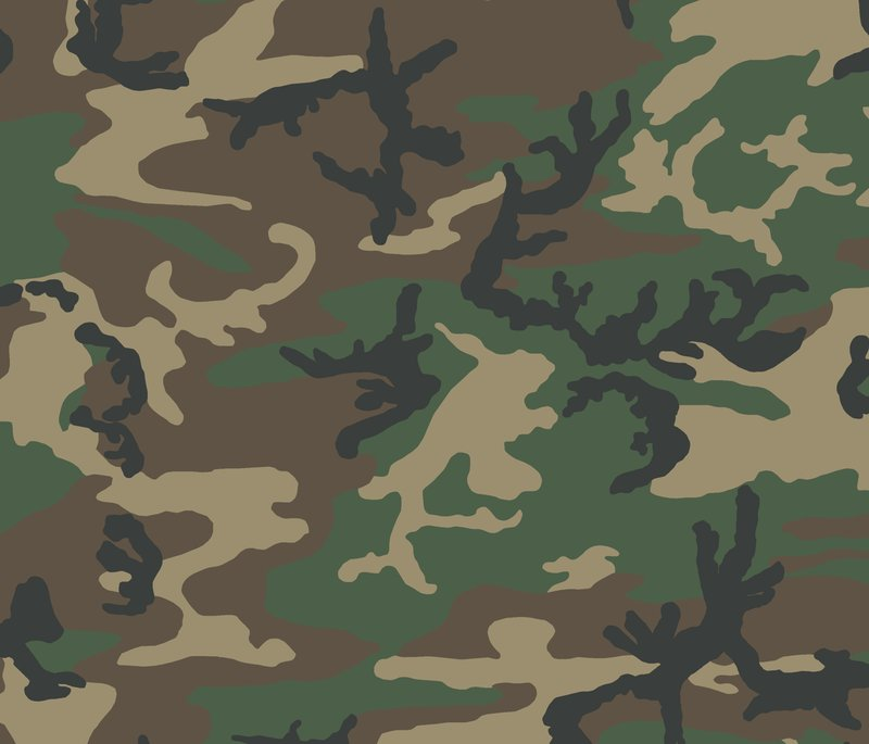 M81 U.S. woodland camouflage pattern swatch